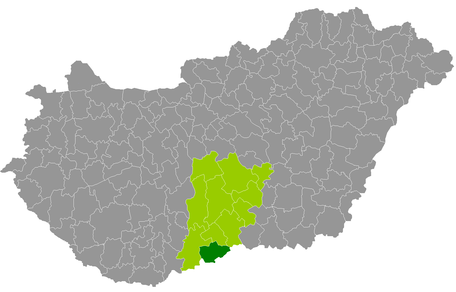 Location of Bácsalmás District, Bács-Kiskun, Hungary